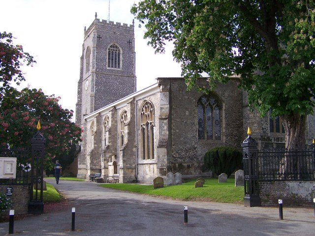 Church of St Michael in Framlingham, Suffolk, England. A Grade I listed medieval church.